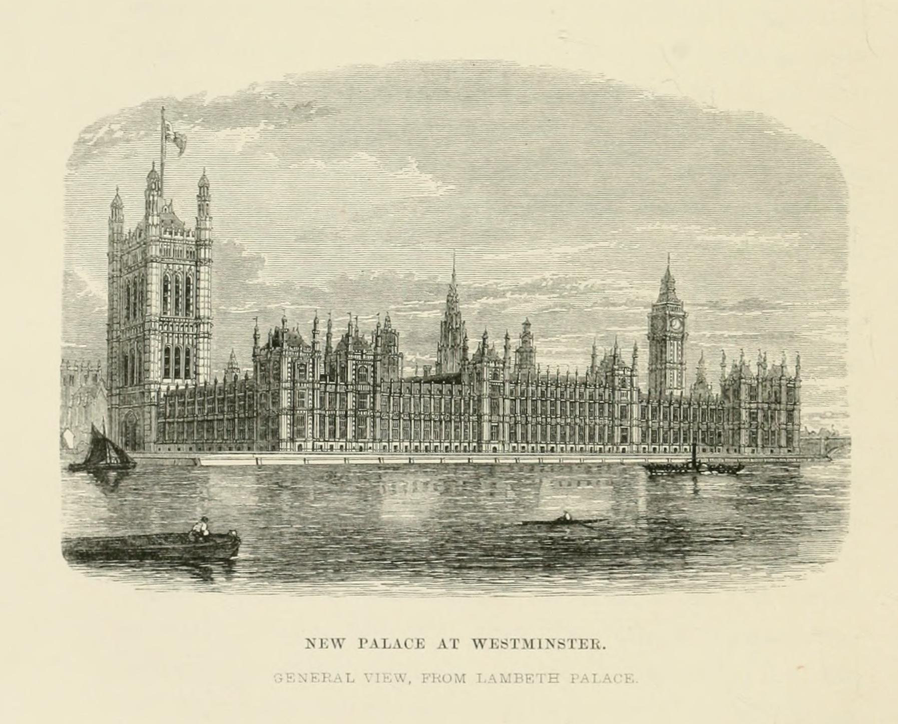 Palace of Westminster